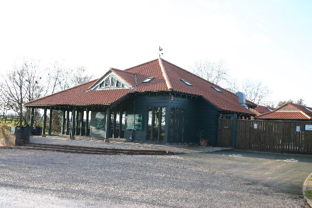 Wetheriggs Pottery. Now a tourist attraction, as well as being a working pottery.